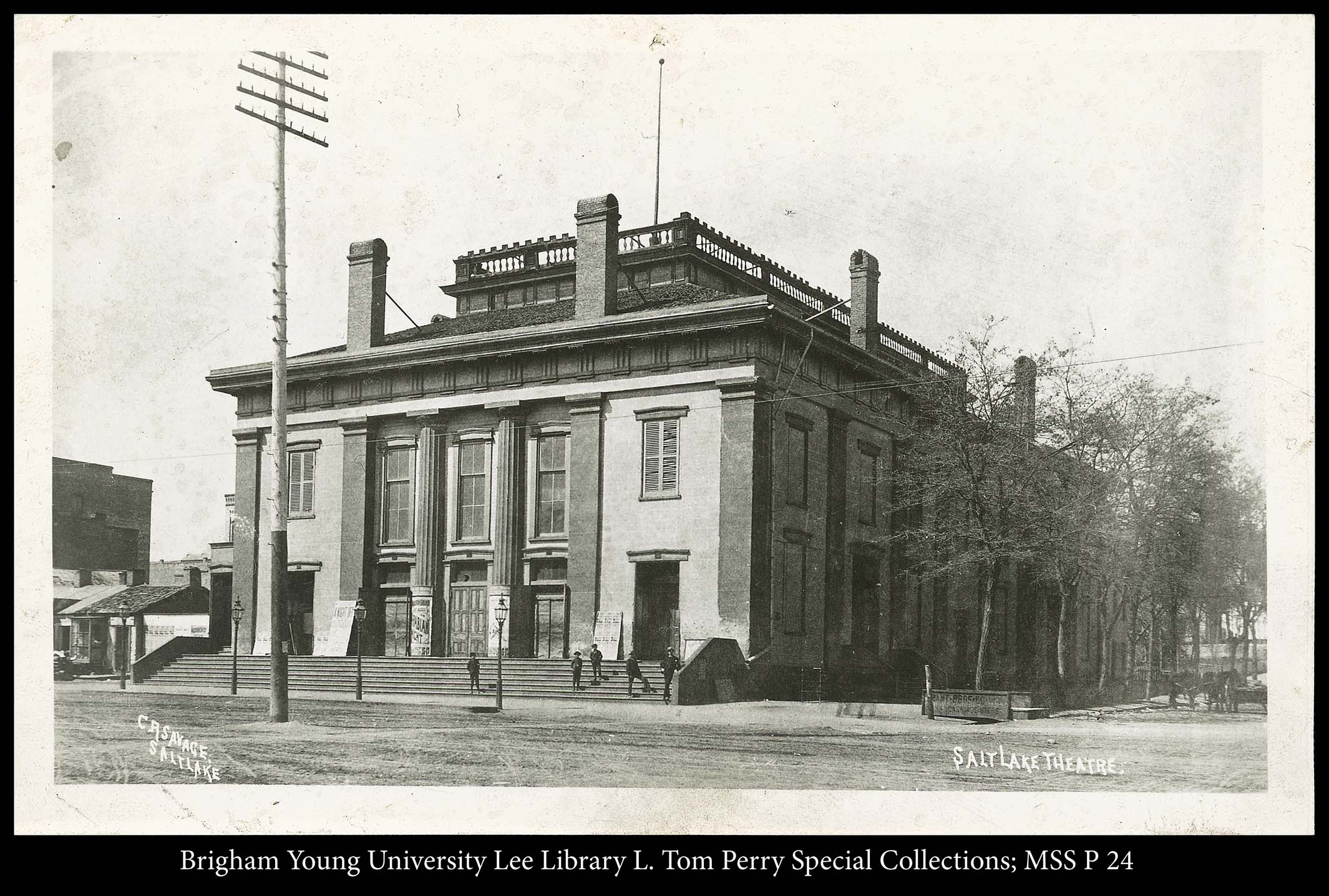 A stone building with columns and people standing on the steps. Back label- Photo by Utah Materials Co. 27 West South Temple Street Salt Lake City, Utah. Probably photographed by Charles R. Savage.